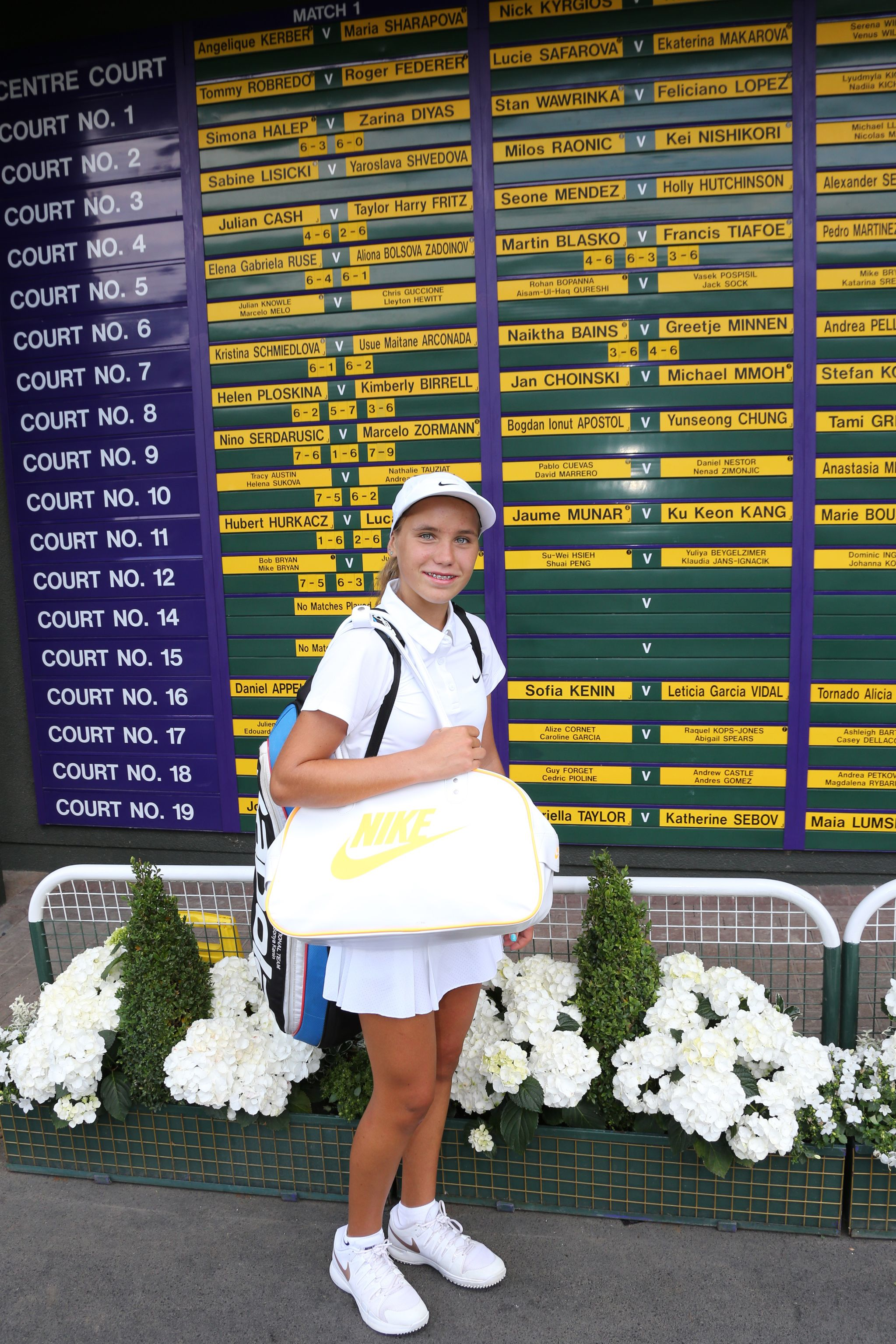 Wimbledon 2014